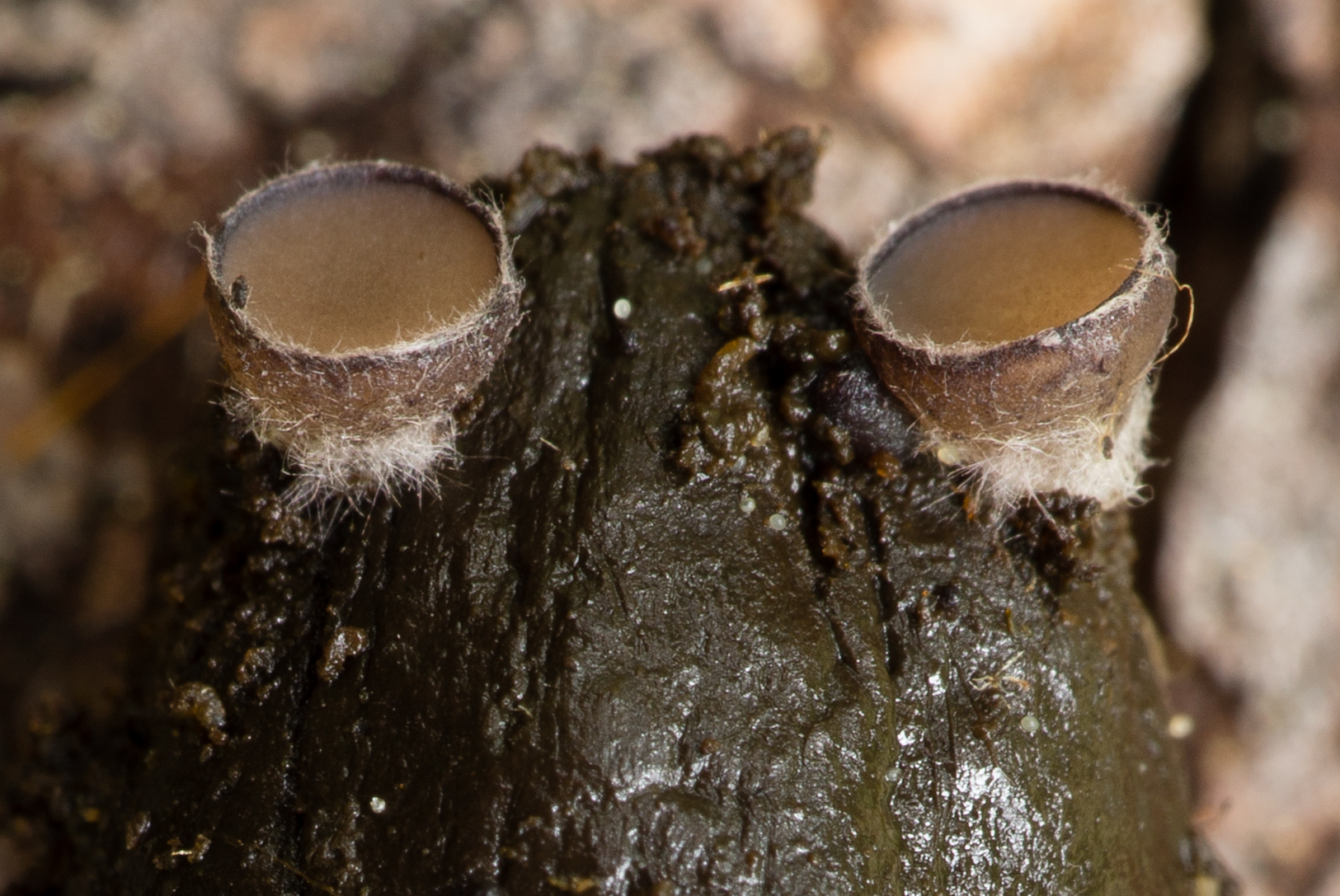 Pseudombrophila cervaria (W. Phillips) Brumm. Image location: Big Basin Redwoods State Park, Santa Cruz Co., California, USA On deer dung. About 2-3 mm. Asci ~190×12; spores 14-17 × 8-10. Recognized by sight For more information about this, see the observation page at Mushroom Observer.